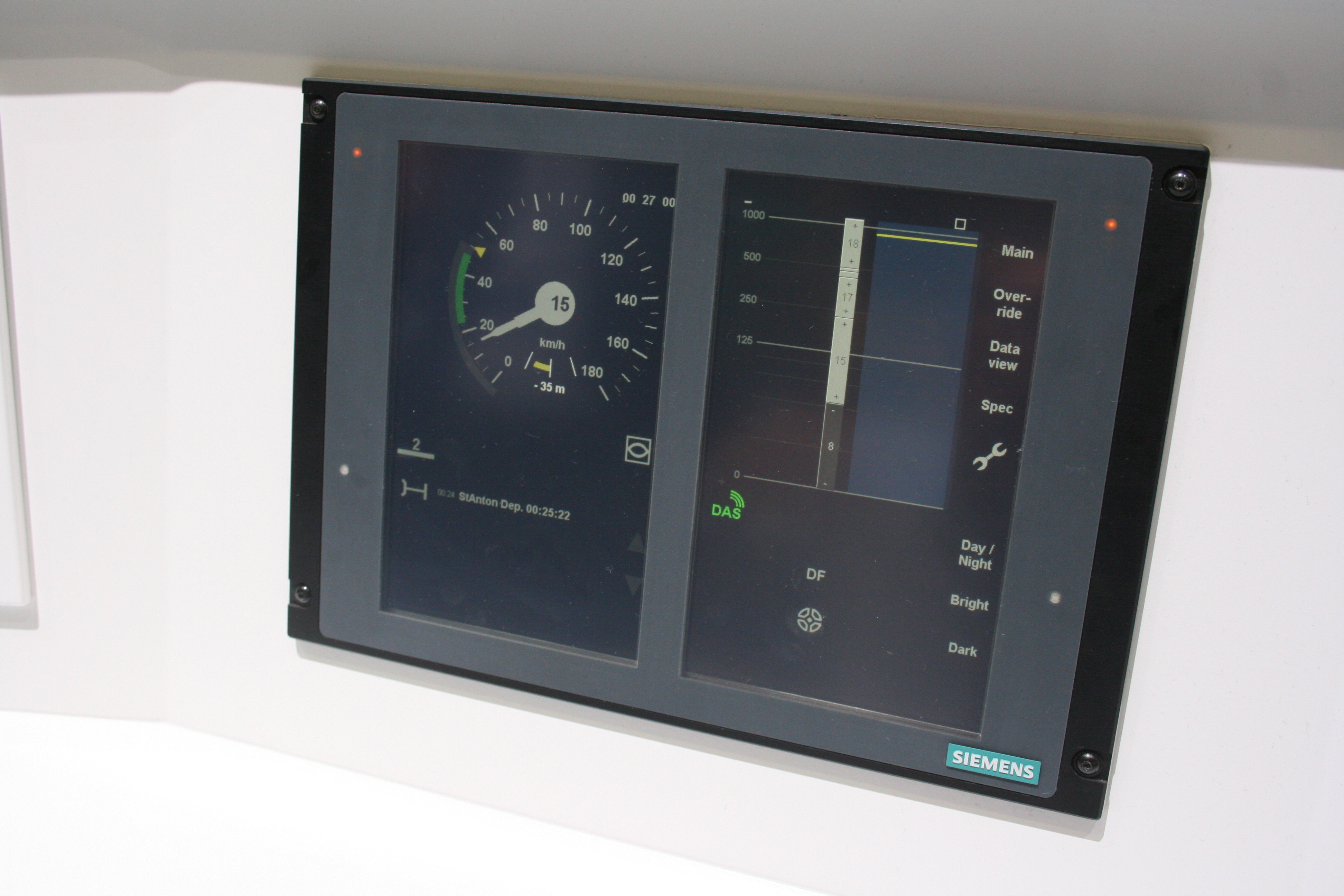 ETCS Driver Machine Interface (DMI) with Driver Advisory System (DAS), with deactived Automatic Train Operation (ATO): The system recommends going faster (green circle segment). The system was shown in a simulator in Innotrans 2016.